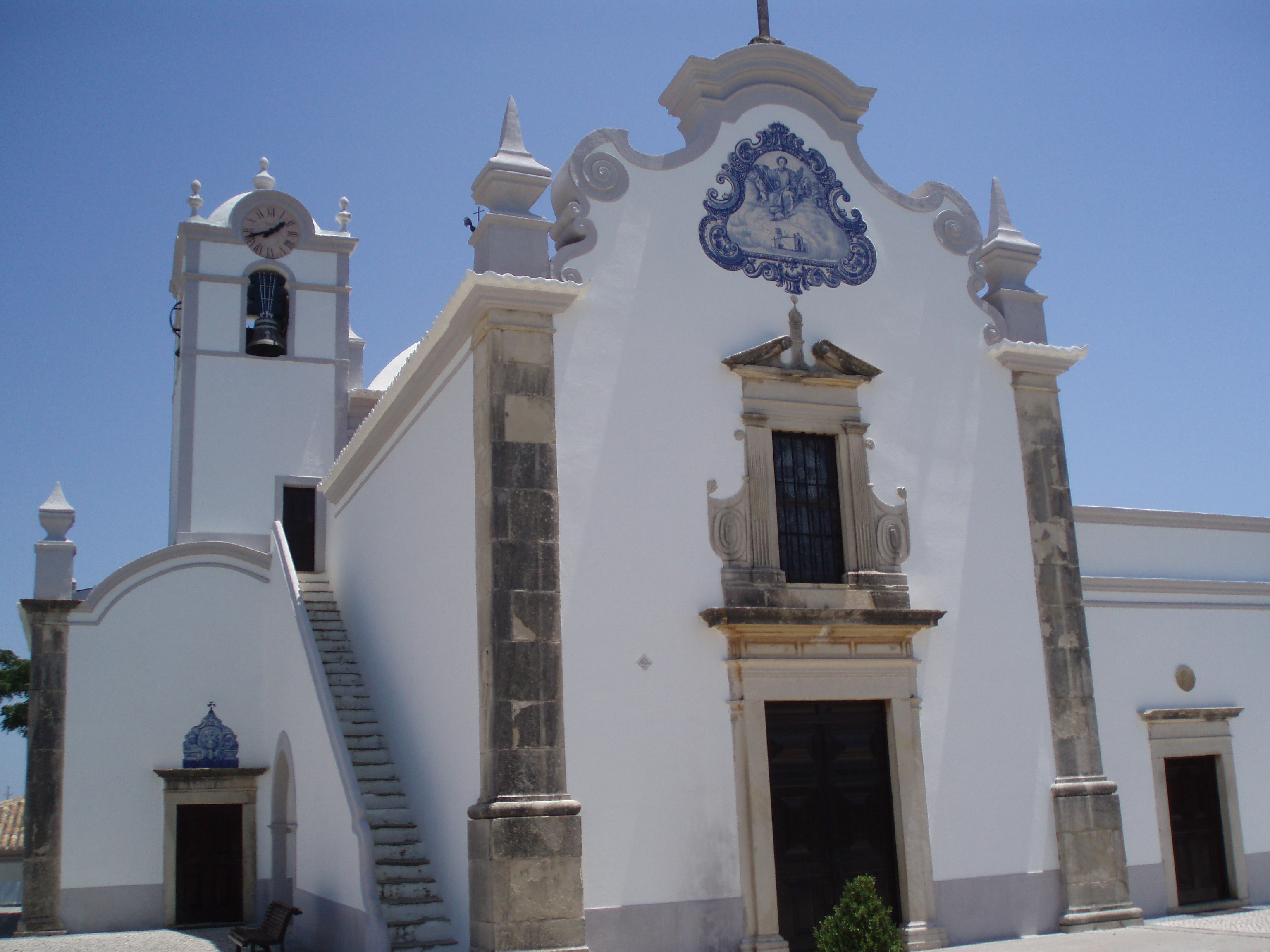 Saint Lawrence Church in Almancil, Portugal.